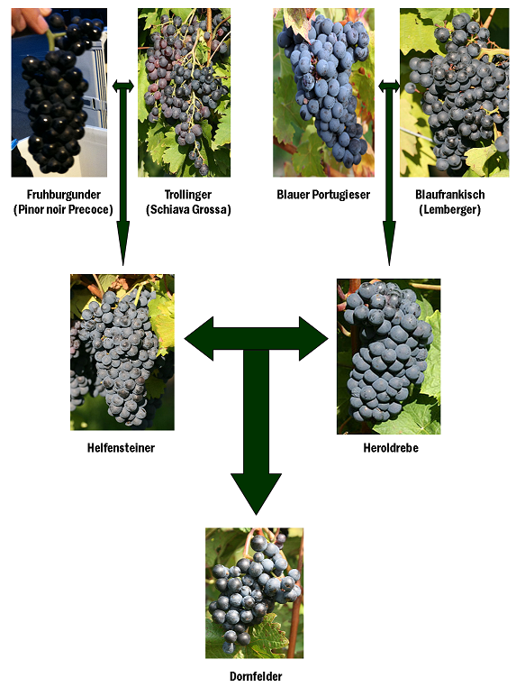 Cropping and consolidation of several Commons images to show the family tree of the German wine grape Dornfelder. Files used include (L to R, top to bottom): 1.) File:Pinot Precoce rotate.jpg by Agne27 released under Creative Commons Attribution-Share Alike 3.0 Unported 2.) File:Muskat-Trollinger Lehrensteinsfeld 20080928.jpg by Rosenzweig released under Creative Commons Attribution-Share Alike 3.0 Unported, 2.5 Generic, 2.0 Generic and 1.0 Generic license. 3.) File:2012-10-20 Blauer Portugieser anagoria.JPG by Anagoria released under Creative Commons Attribution 3.0 Unported 4.) File:Lemberger Lehrensteinsfeld 20080928.jpg by Rosenzweig released under Creative Commons Attribution-Share Alike 3.0 Unported, 2.5 Generic, 2.0 Generic and 1.0 Generic 5.) File:Helfensteiner Lehrensteinsfeld 20080928.jpg by Rosenzweig released under Creative Commons Attribution-Share Alike 3.0 Unported, 2.5 Generic, 2.0 Generic and 1.0 Generic 6.) File:Heroldrebe.jpg by Dr. Joachim Schmid, FG RZ, FA Geisenheim released under Creative Commons Attribution-Share Alike 3.0 Unported 7.) File:Dornfelder Weinsberg 20080927.jpg by Rosenzweig released under Creative Commons Attribution-Share Alike 3.0 Unported, 2.5 Generic, 2.0 Generic and 1.0 Generic